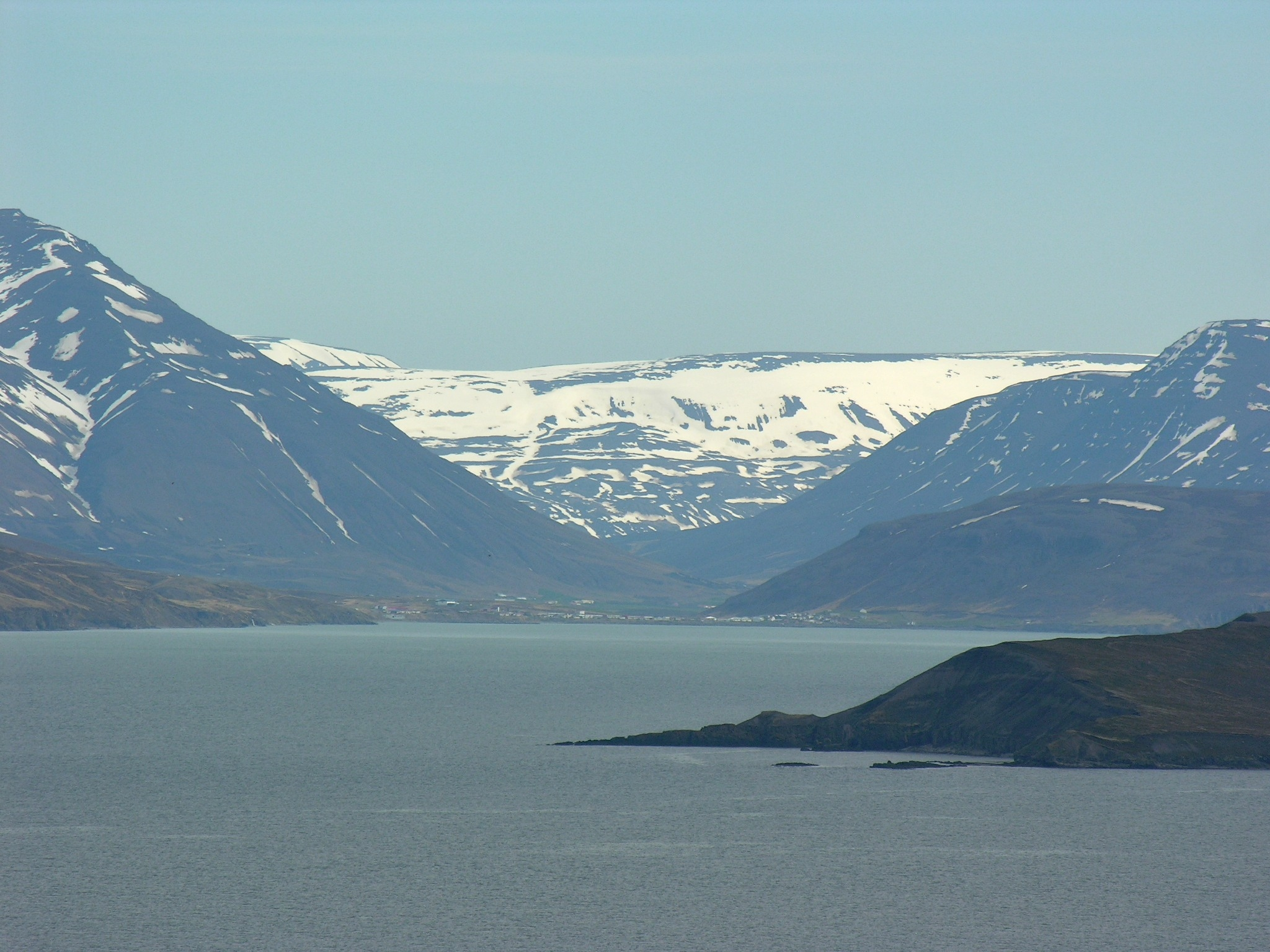 Iceland, along road 82